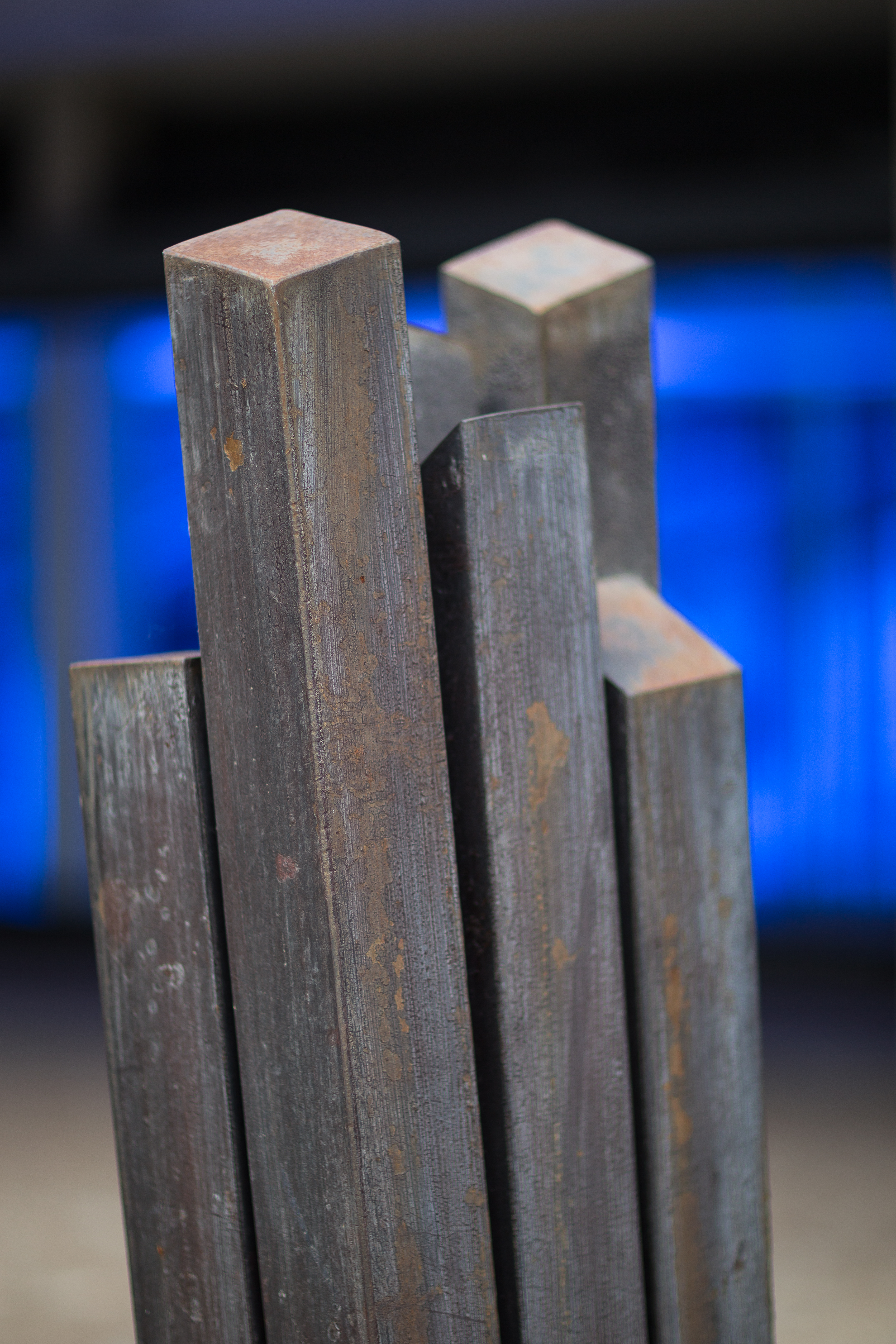 Sculpture "In Vent" by Robert Schad (1926 - 1990) installed in the inner yard of the Sparkasse office building located at Aegidientorplatz square, Hanover. Germany.